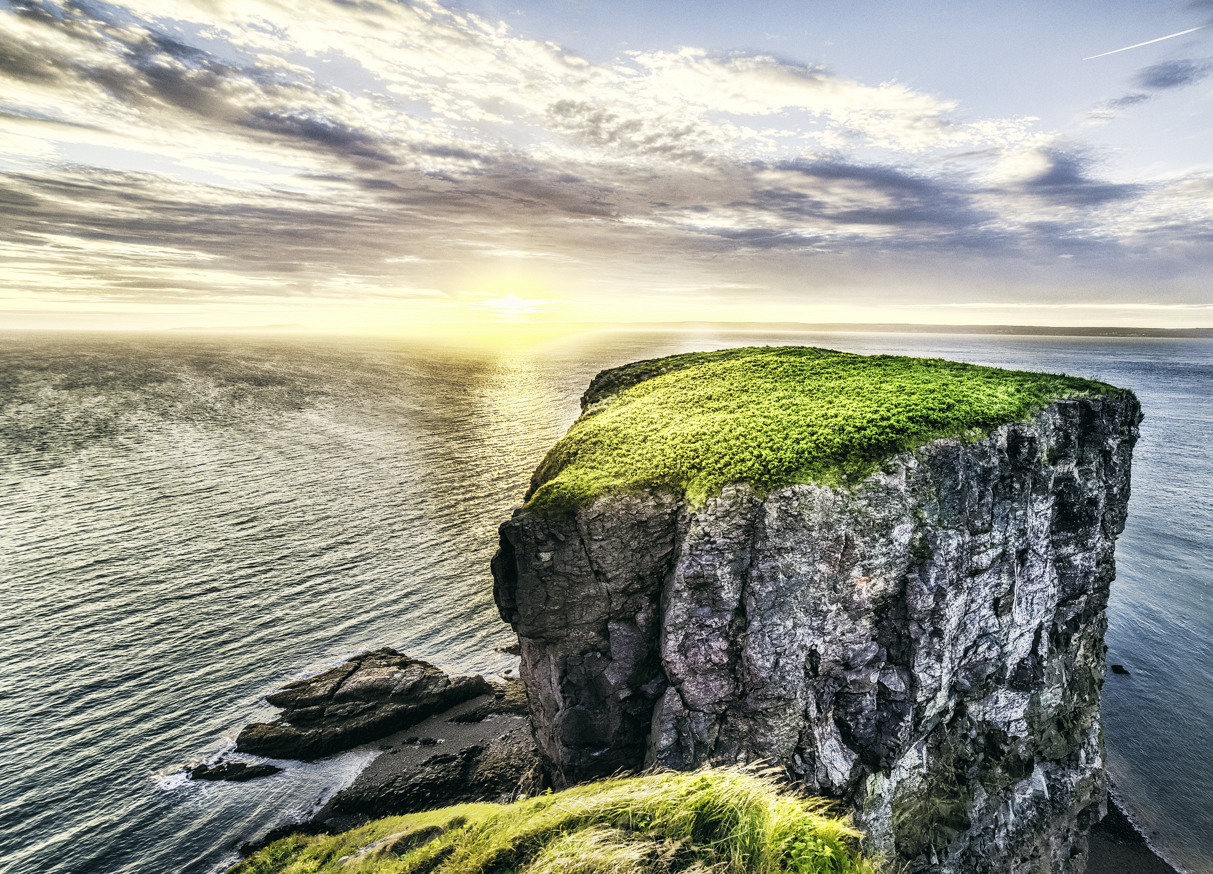 Beautiful sunset at Cape Split Nova Scotia